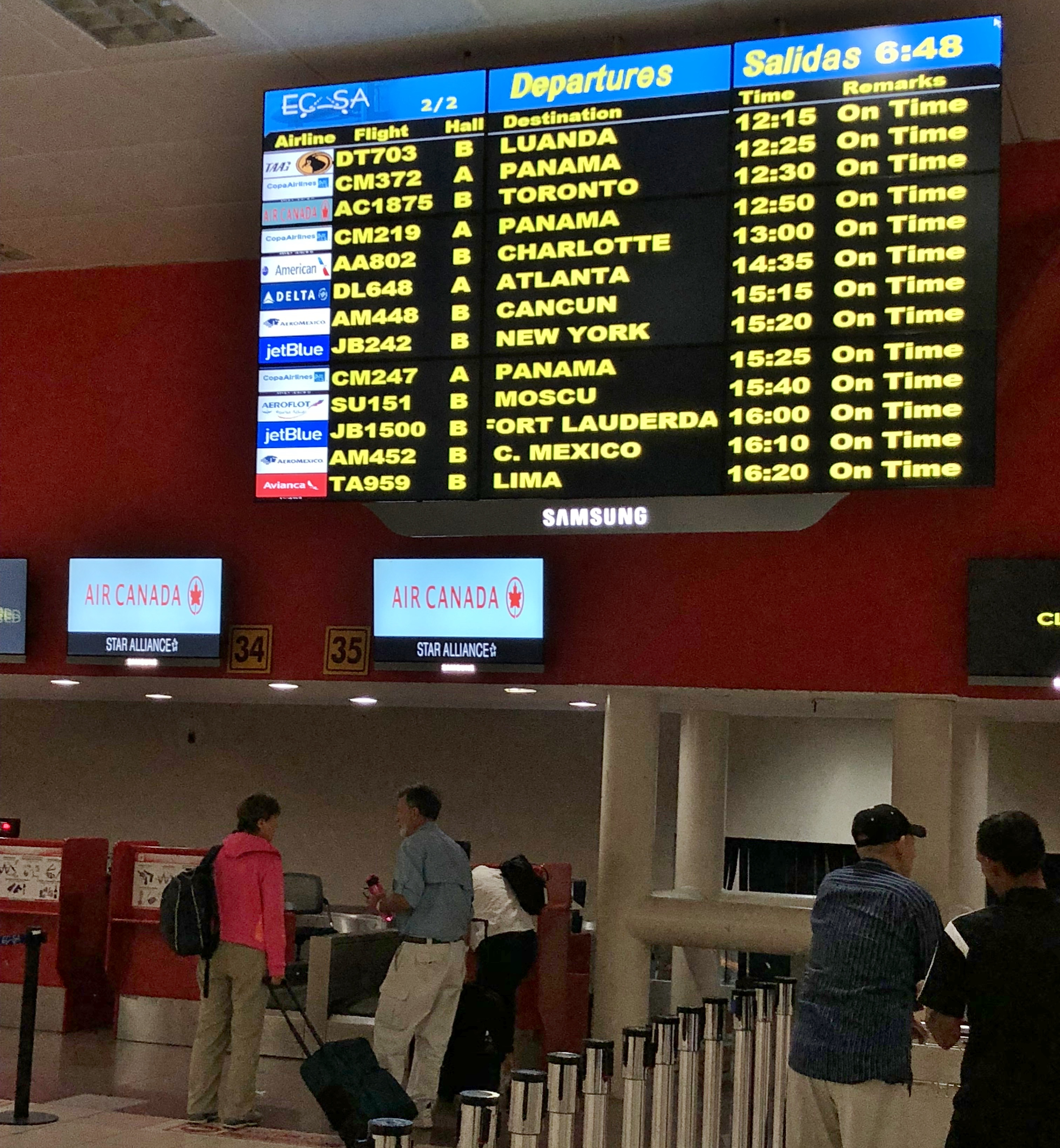 Jose Marti Airport Terminal 3 Flight Information.